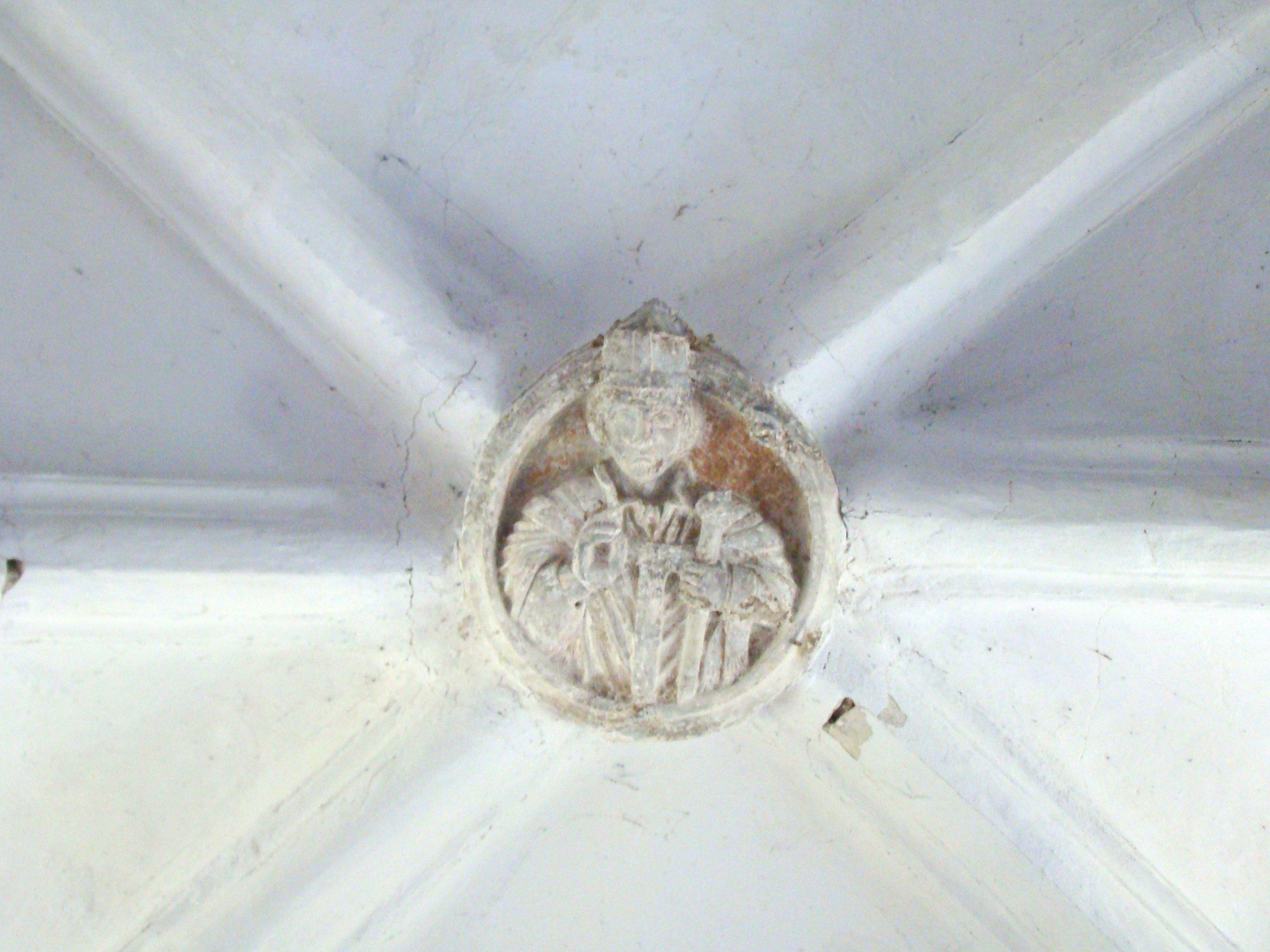 Lutheran church in Hălmeag, Brașov County, Romania